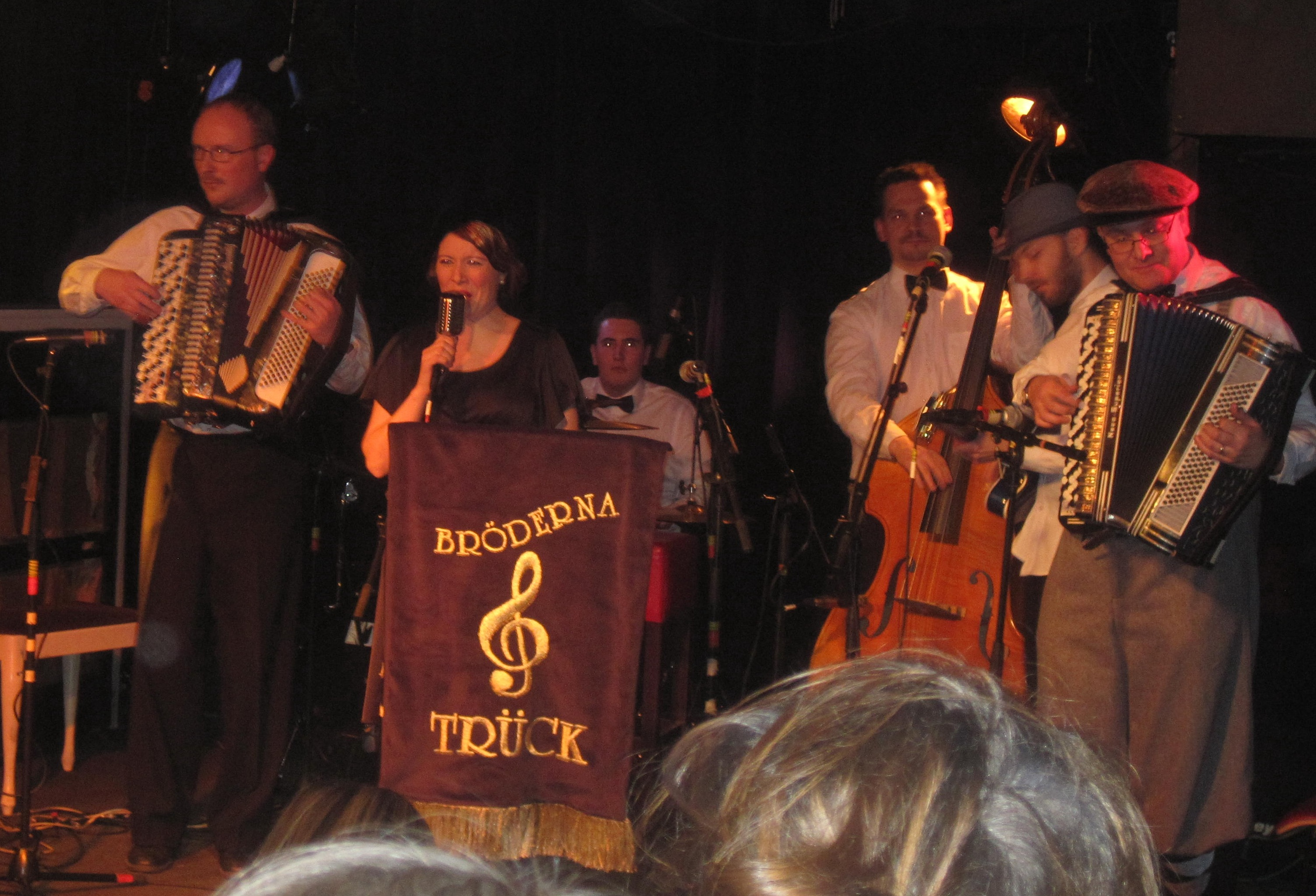 Swedish music group "Bröderna Trück" performing at the concert staged due to the 100th anniversary of the birth of Johnny Bode, January 2012.